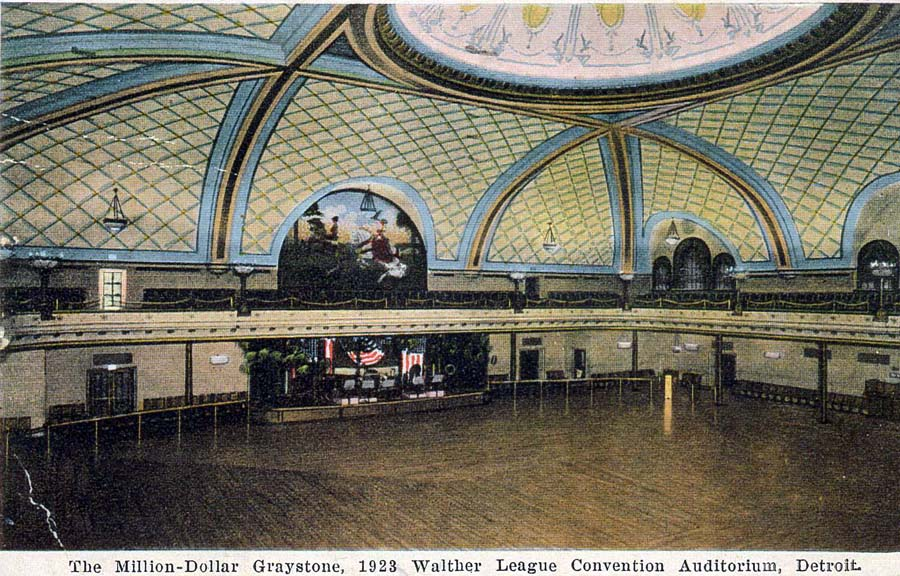 The dancefloor of the Graystone Ballroom in Detroit, Michigan, taken in 1923